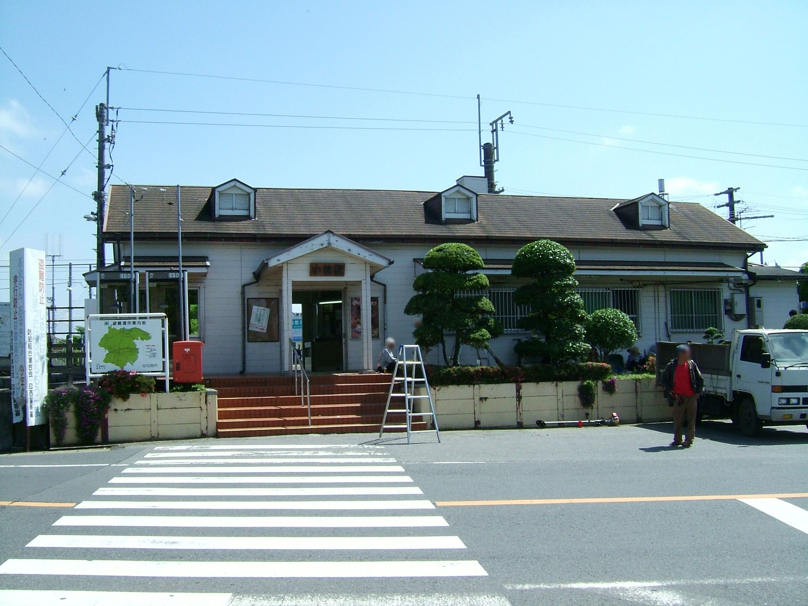 Kobayashi Station building (East Japan Railway Narita Line)